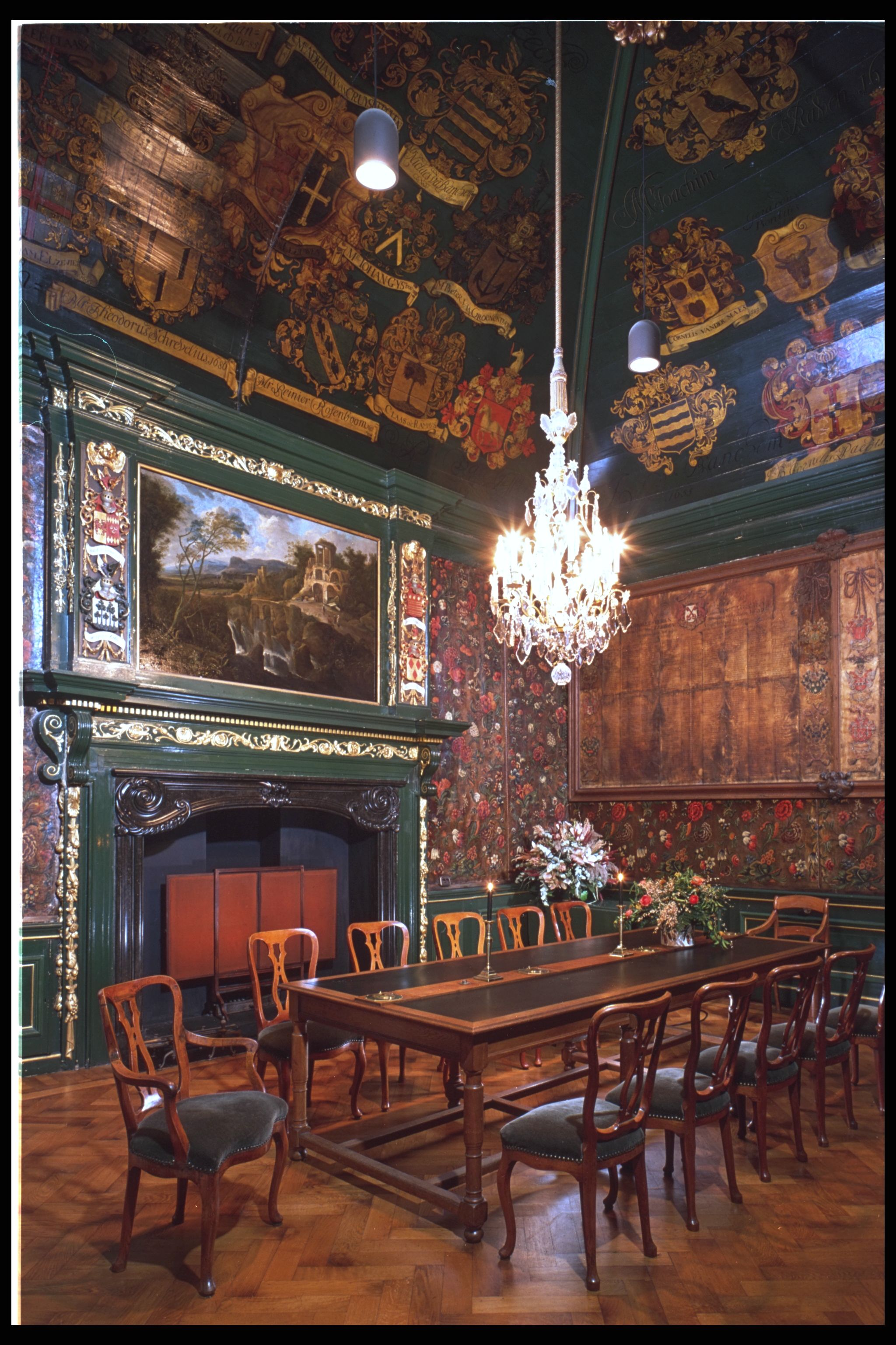 Leiden, Church of St Pieter: Trusteesroom